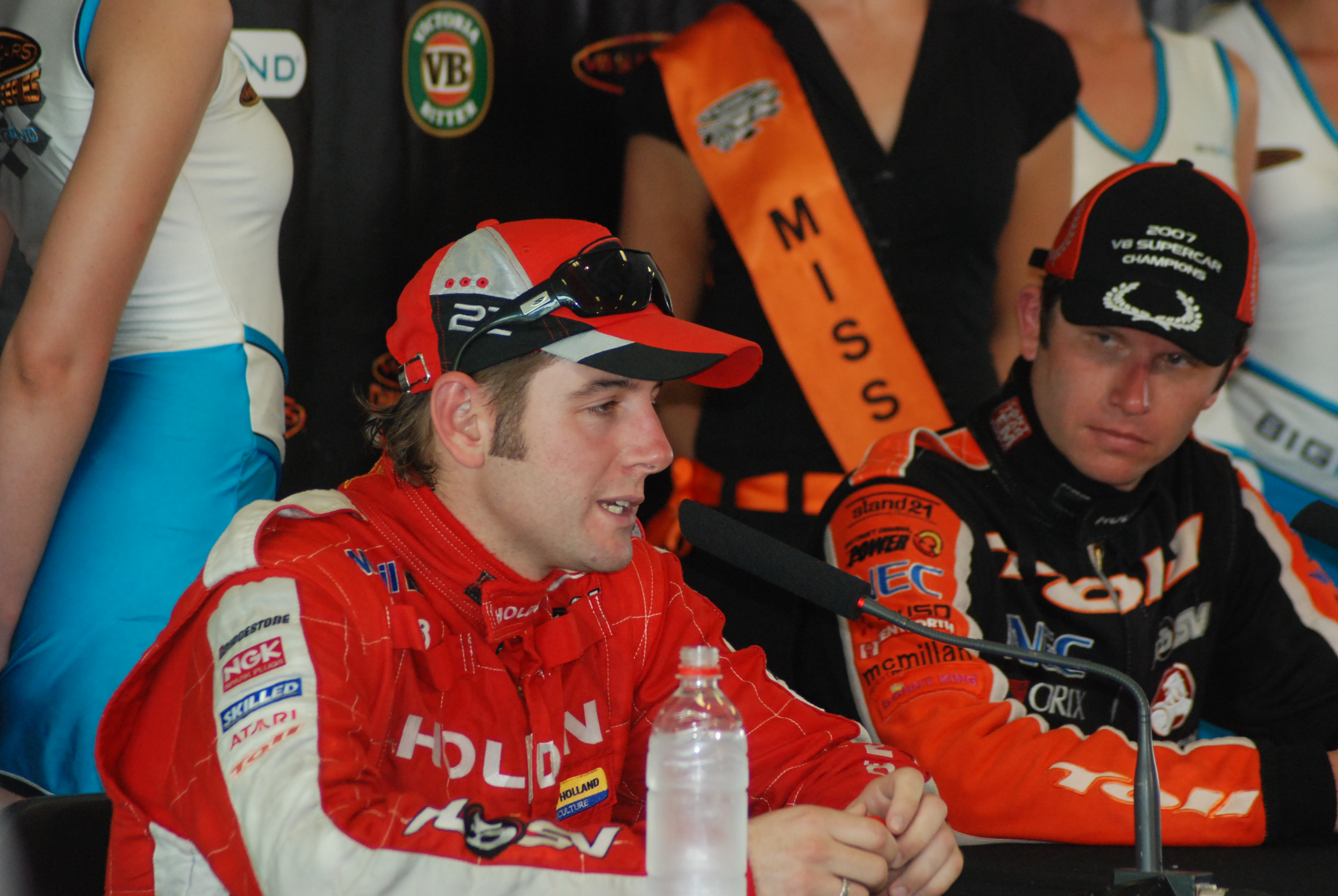 Todd Kelly and Garth Tander at a press conference at Phillip Island V8 Supercar around.